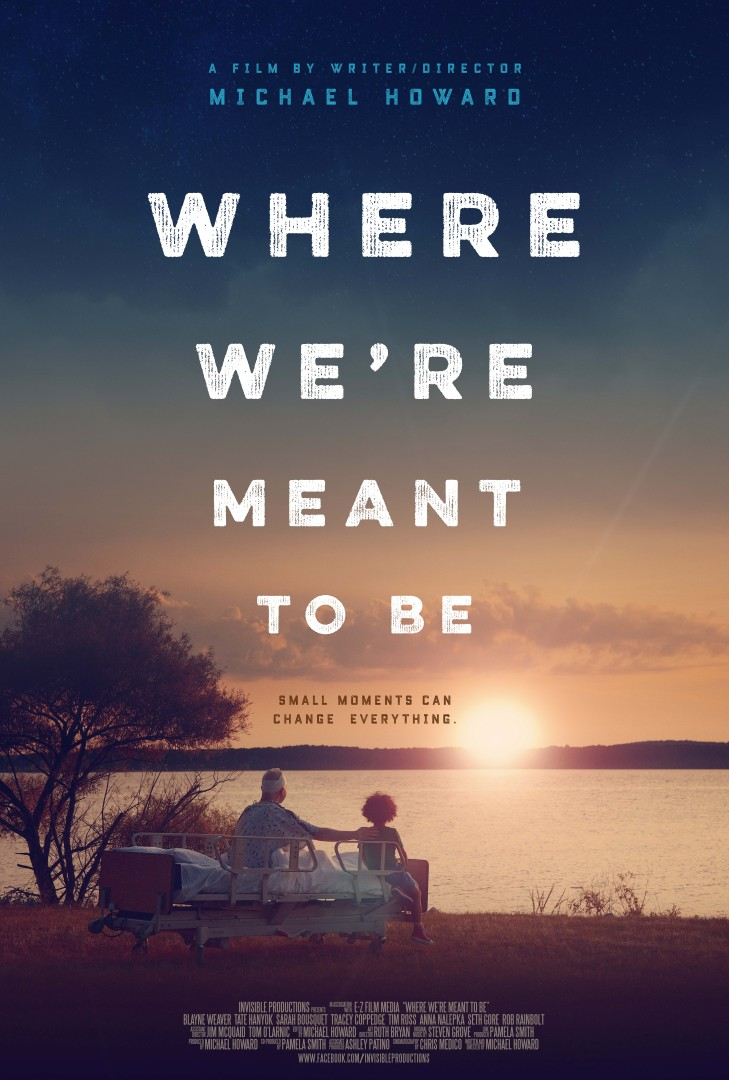 The official vertical poster for the feature film Where We're Meant to Be